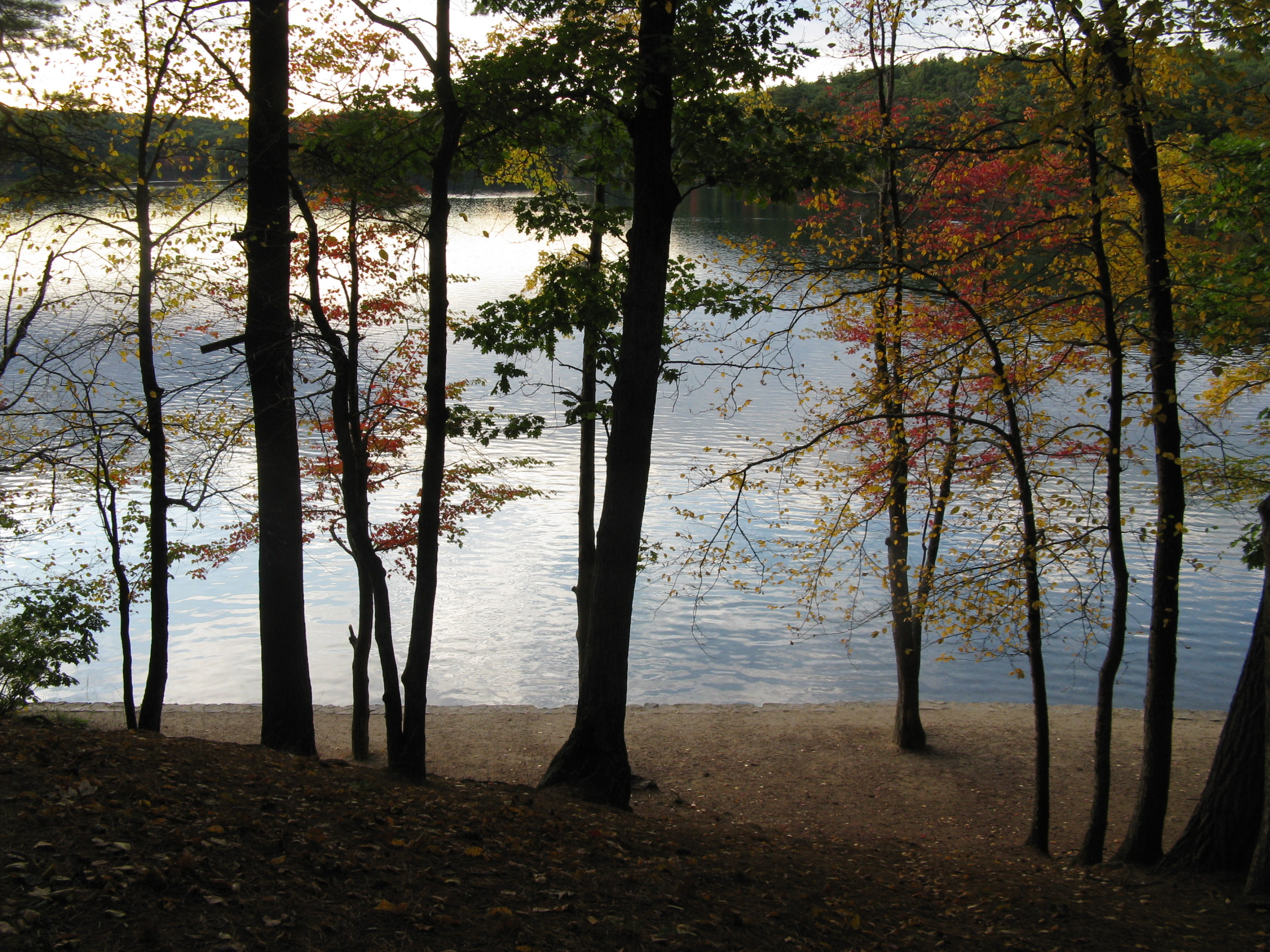 Walden Pond in October, Concord Massachusetts